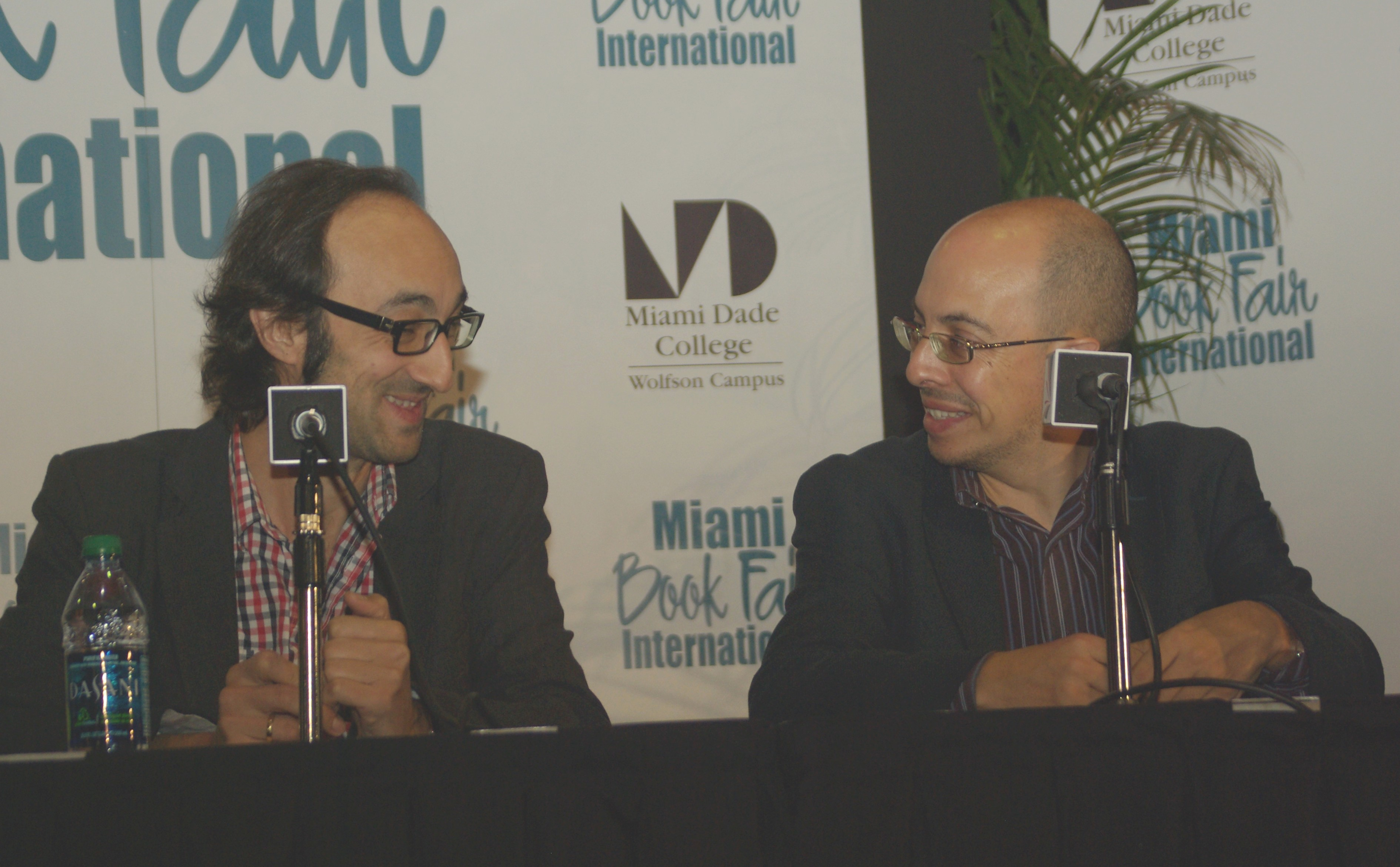 Spanish writer Agustin Fernandez Mallo with Mexican writer Jorge Volpi at the Miami Book Fair International 2011